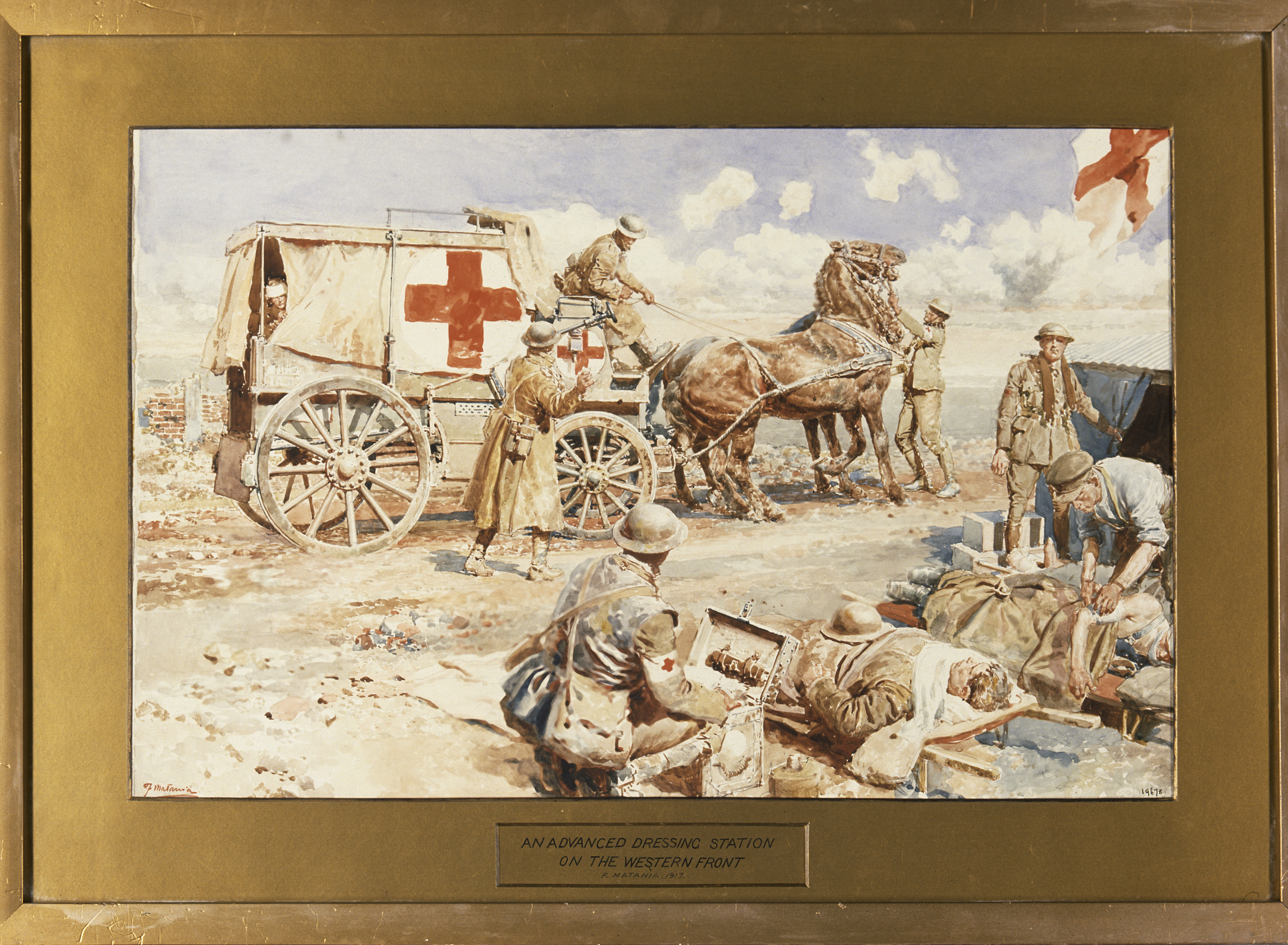 World War I: an advanced dressing station on the Western Front. Watercolour by F. Matania, 1917. Iconographic Collections Keywords: Fortunino Matania